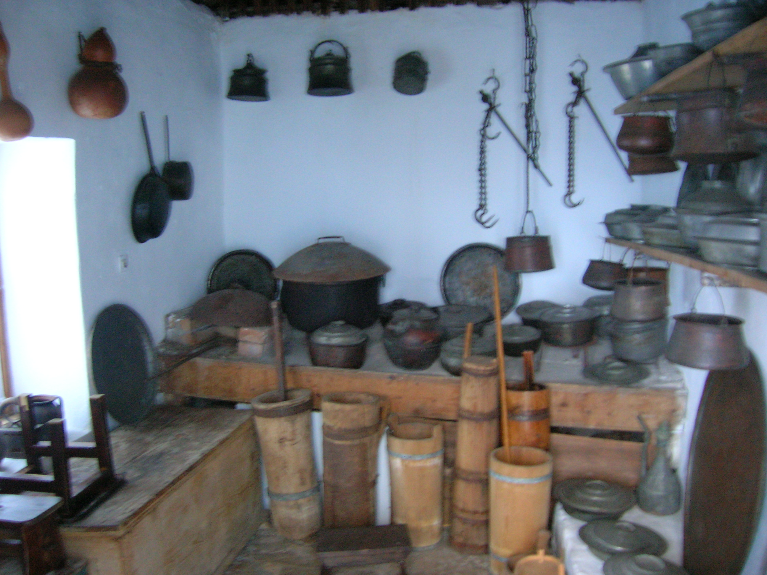 Kitchen in the Bosniak house